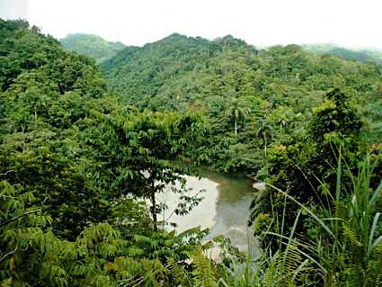 Alejandro de Humboldt National Park, located in the Nipe-Sagua-Baracoa mountain range of eastern Cuba, in Holguín and Guantánamo Provinces. The national park is a UNESCO World Heritage Site in Cuba.